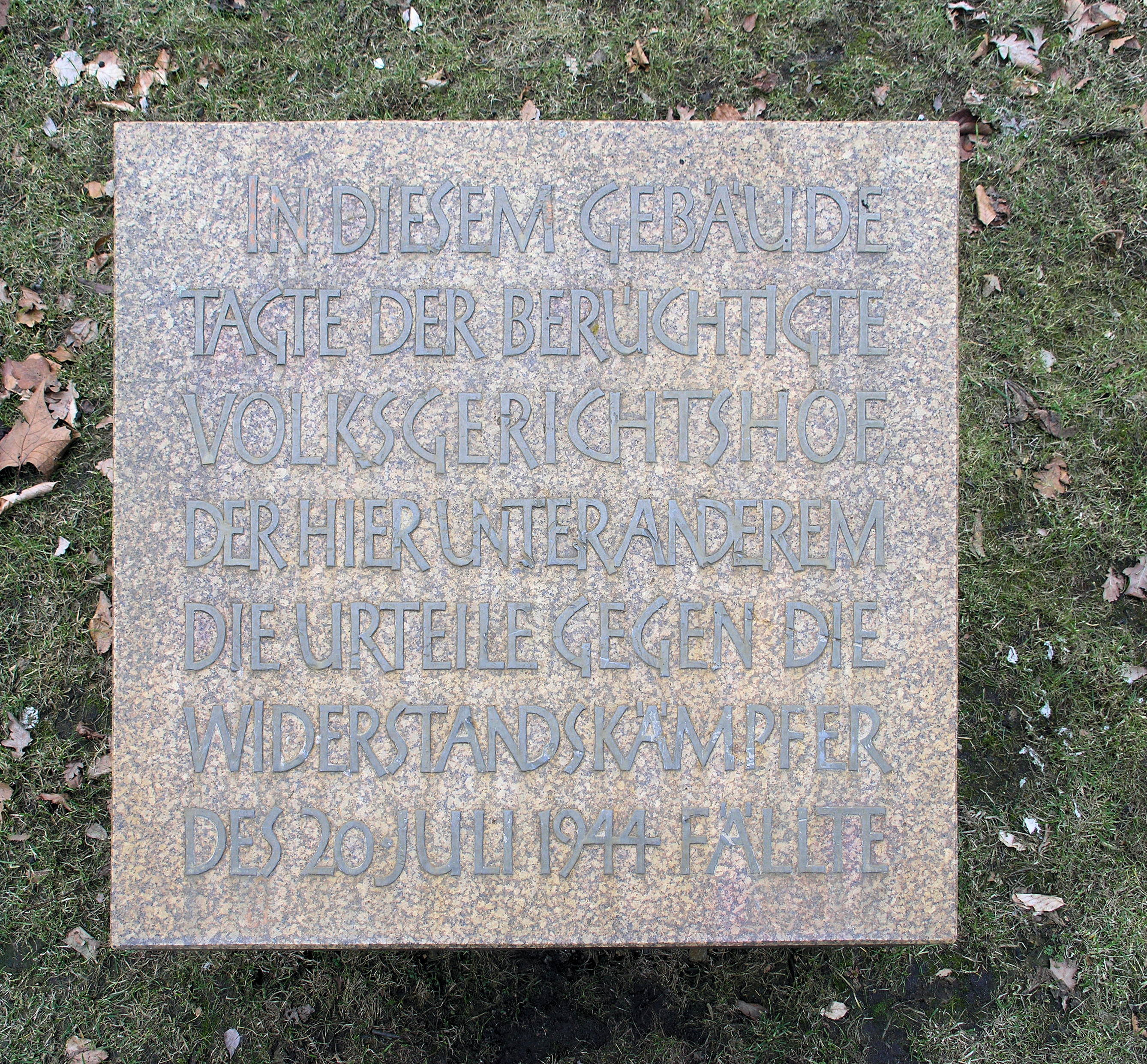 Memorial plaque, Volksgerichtshof, Potsdamer Straße 186, Berlin-Schöneberg, Germany Koordinate:52°29′32″N 13°21′38″E / 52.49222°N 13.36056°E